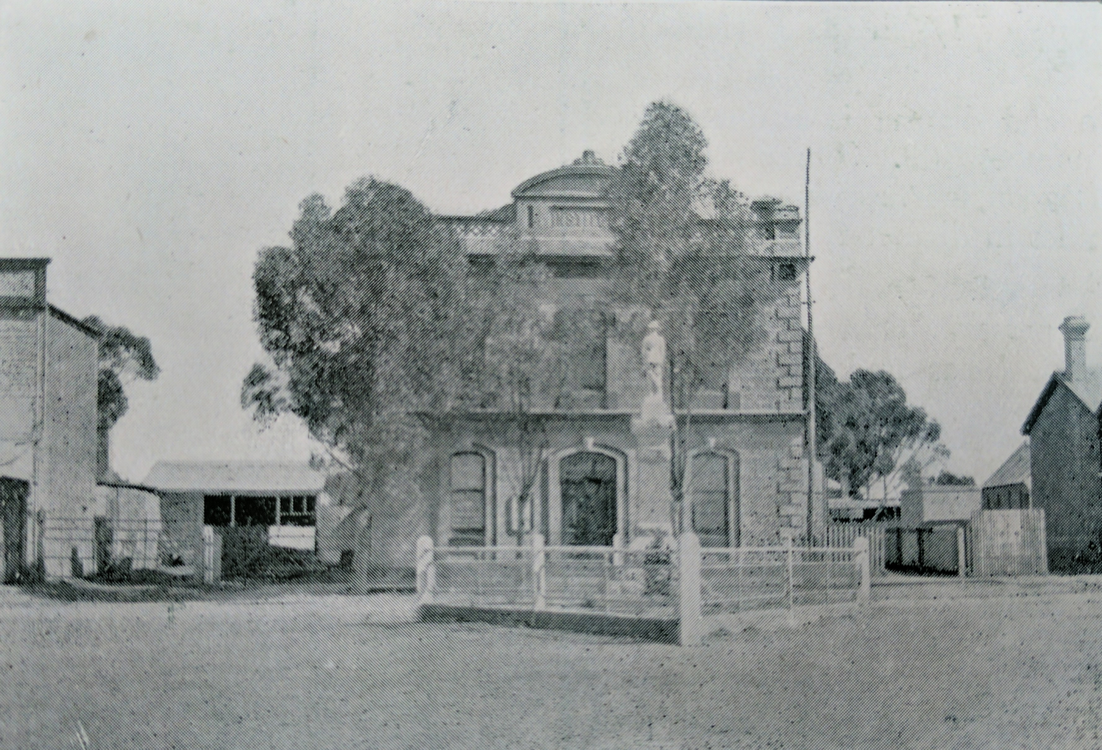 Portrait of the Terowie Institute, Terowie.